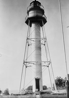 Public Domain statement here; The Plum Island Range Lights are a pair of lighthouses located on Plum Island in Door County, Wisconsin. Rear Range pictured.